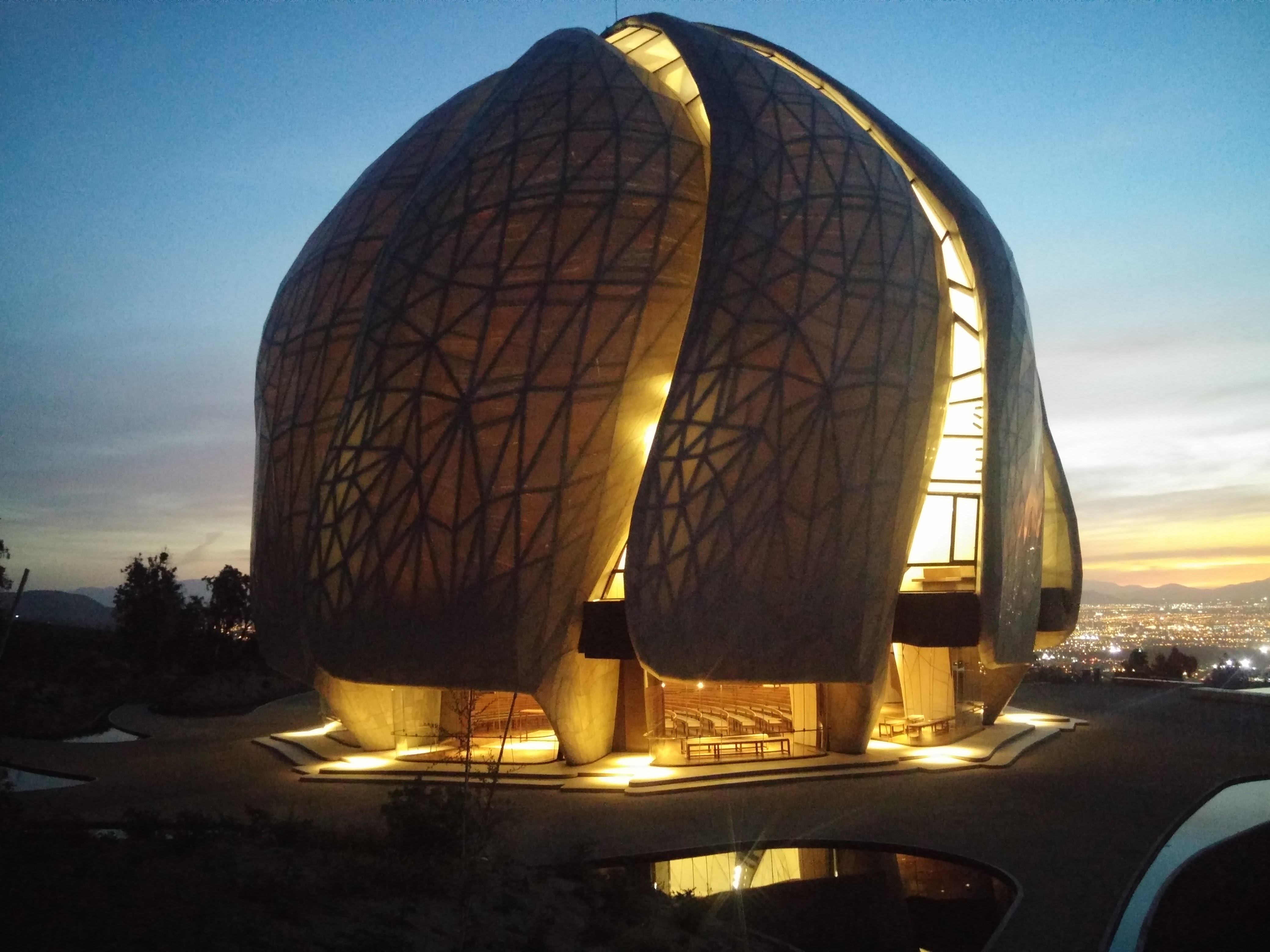 Baha'i Temple of South America, Santiago, Chile - dusk pictures